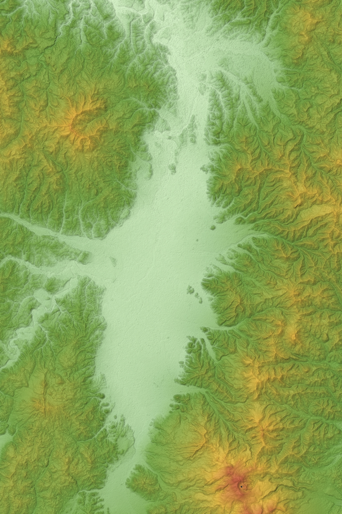 Yamagata Basin in Yamagata Prefecture, Honshu, Japan.